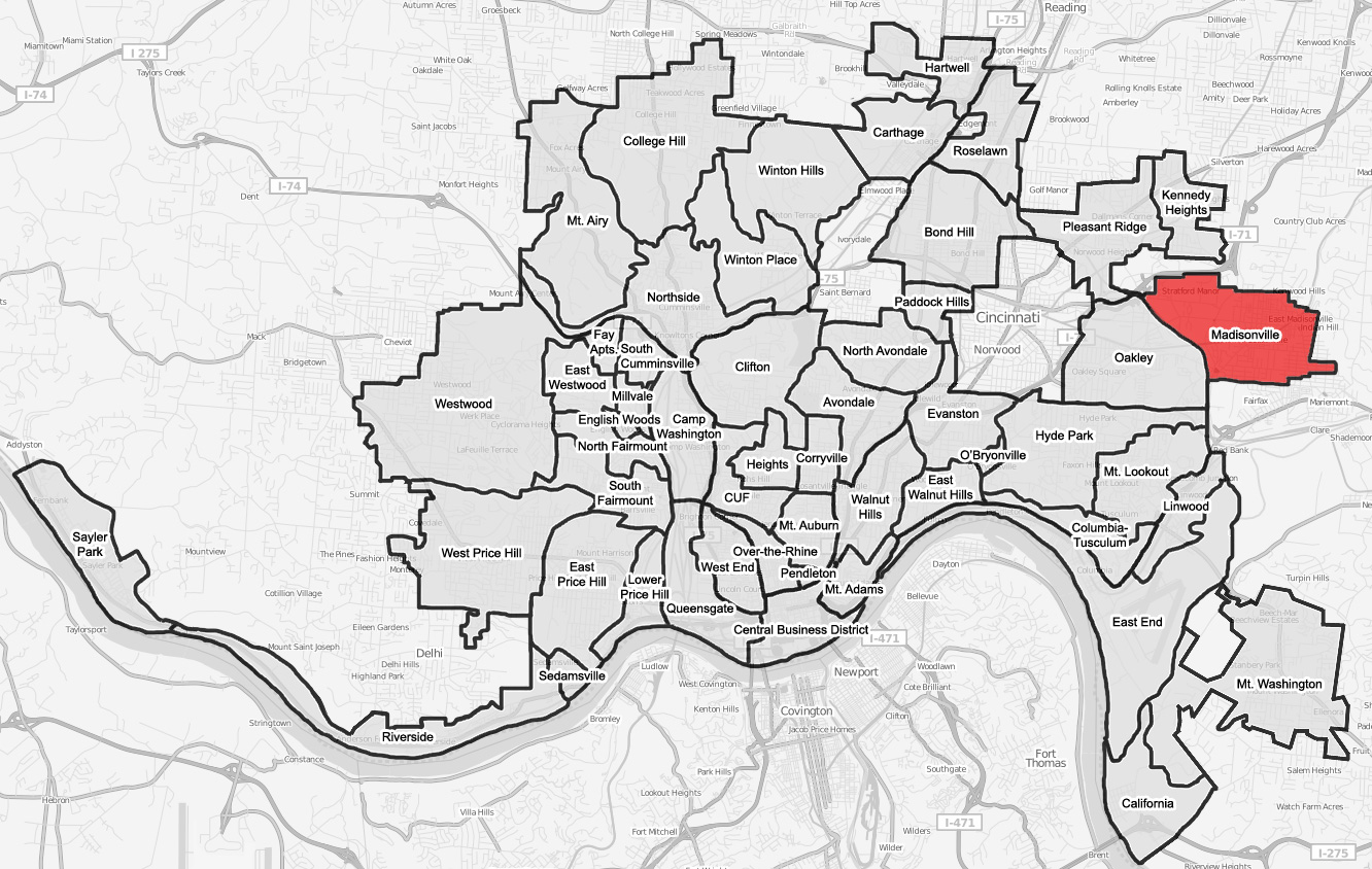 A map of the neighborhood of Madisonville within Cincinnati, Ohio. Neighborhood lines are based on information from This street map is derived from a free map.